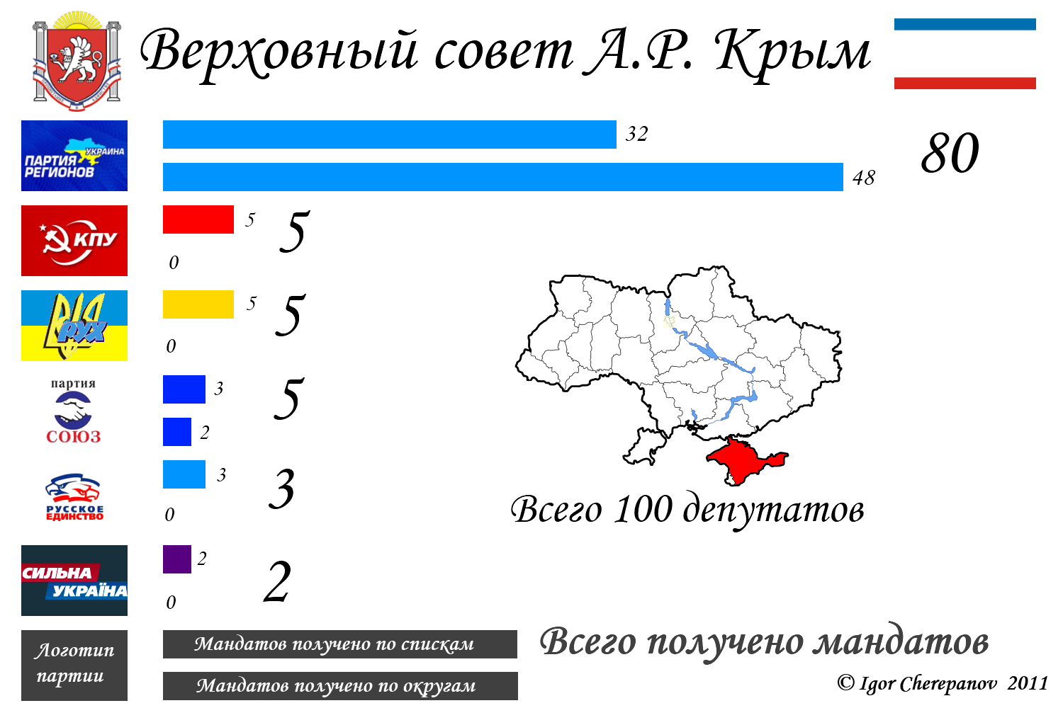 Results of Crimean parliamentary election 2010